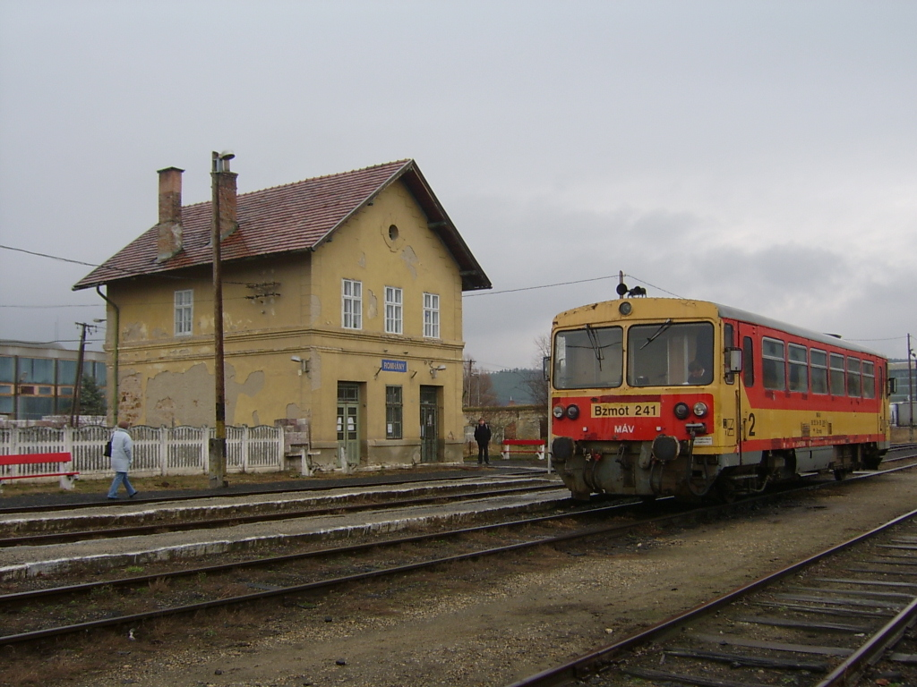 Railway station of Romhány in the Diósjenő–Romhány line, Nógrád County, Hungary